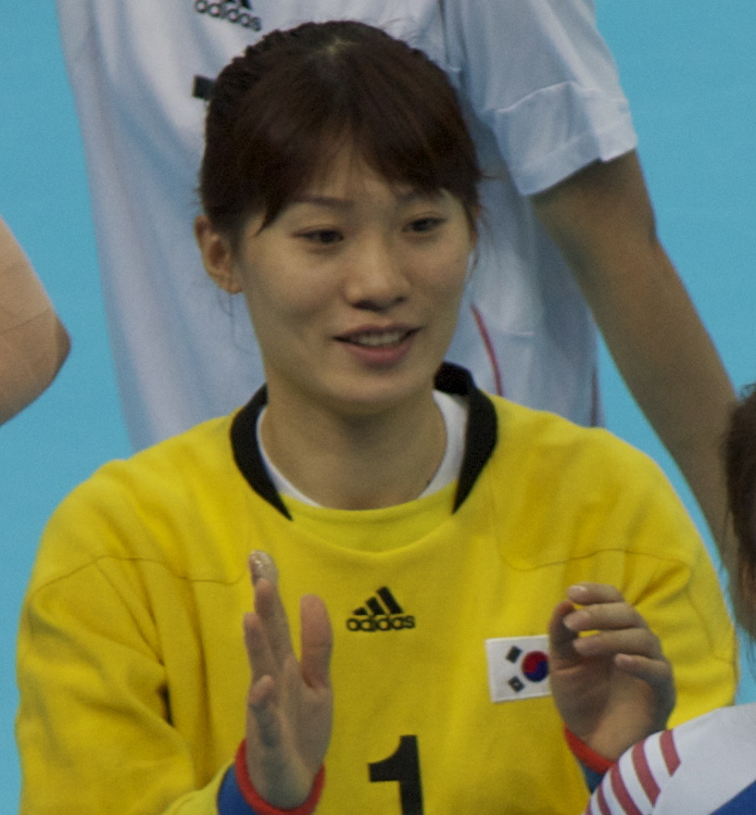 South Korea vs. Spain